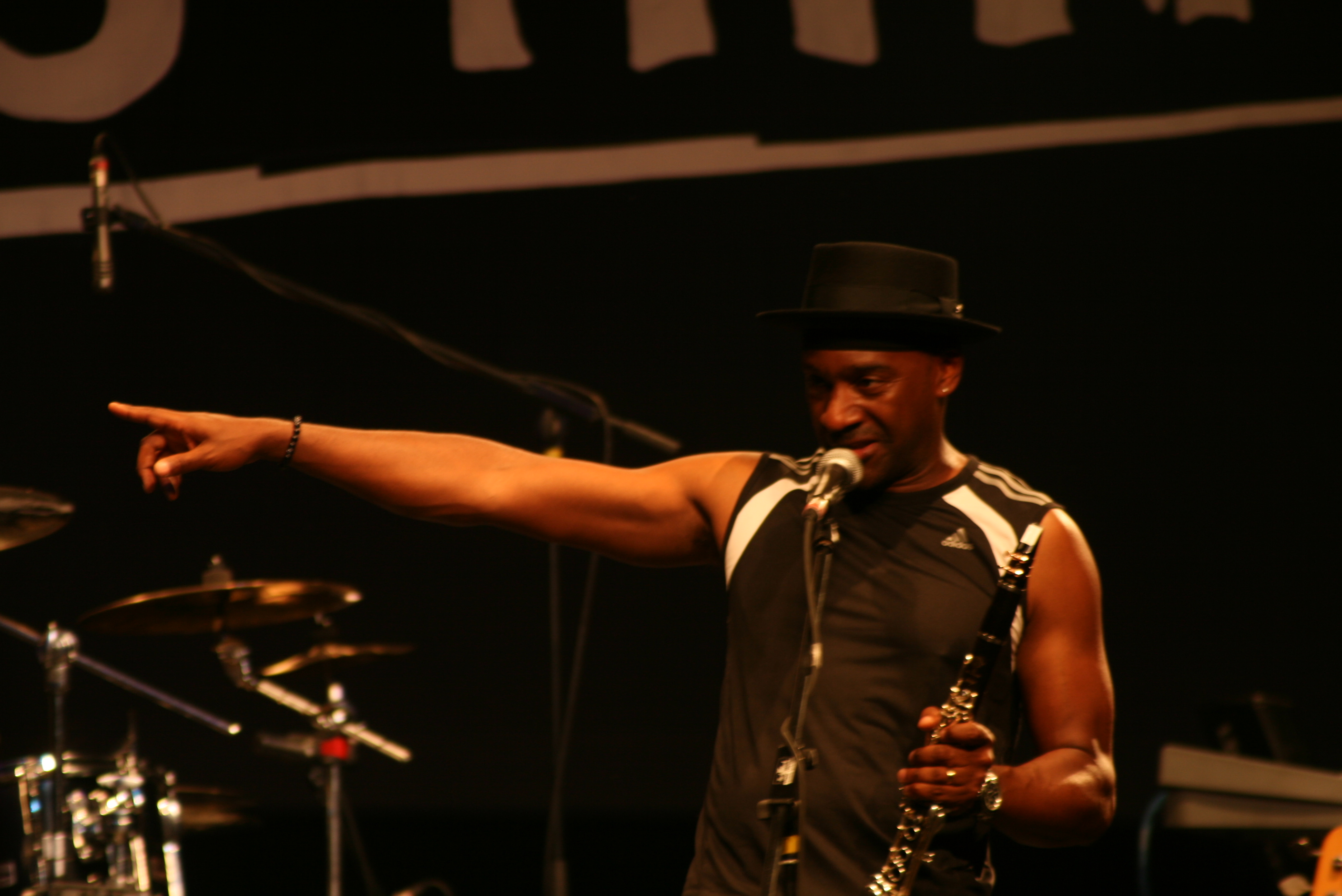 Marcus Miller in Budapest